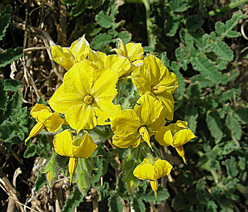 A close view of the flowers, from the Cordillera Negra of Peru. In context at